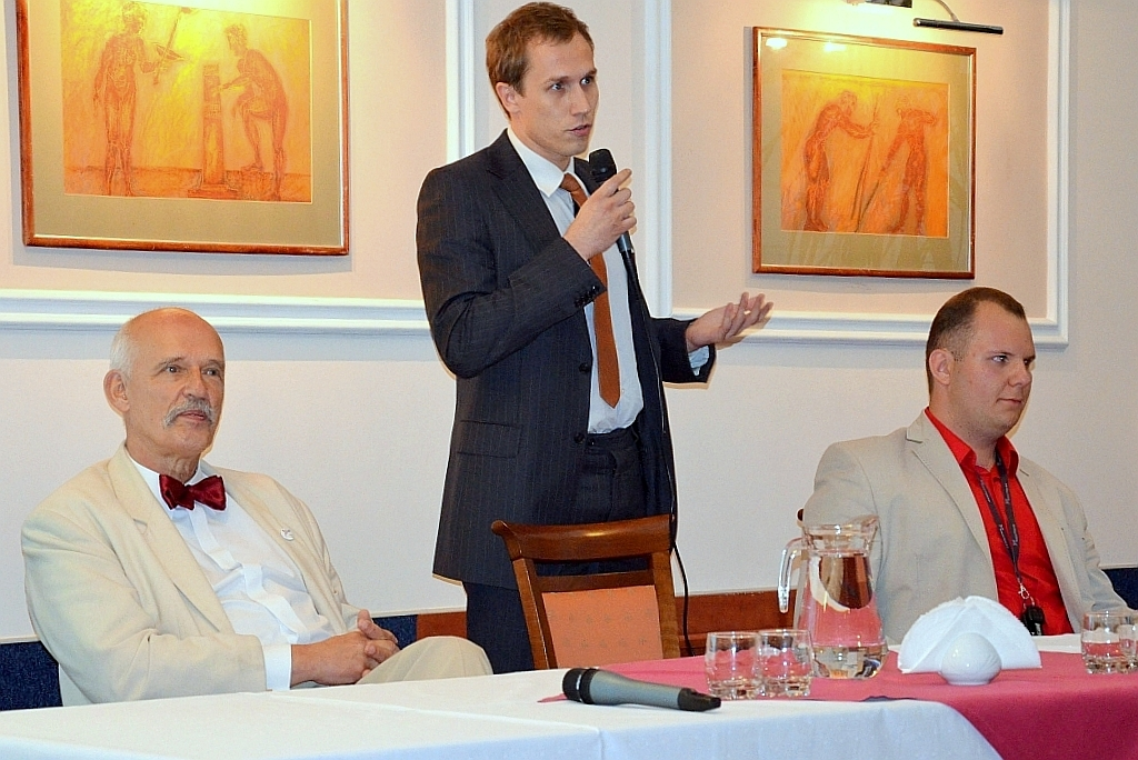 Janusz Korwin-Mikke in Sanok. Konrad Berkowicz is speaking.